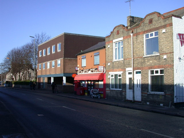 Newmarket Road Post Office This branch, also a newsagents and off-licence, stands by one of Cambridge's busiest arterial roads and is dwarfed by the houses on one side and Logic House on the other.